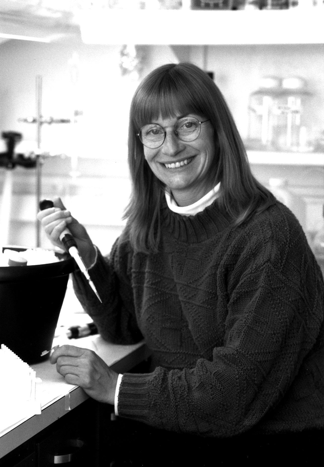 Title Wickner, Sue Description Senior Investigator, Head, DNA Molecular Biology Section, Laboratory of Molecular Biology, Center for Cancer Research, National Cancer Institute. Topics/Categories National Cancer Institute, People Type B&W Source National Cancer Institute (NCI)